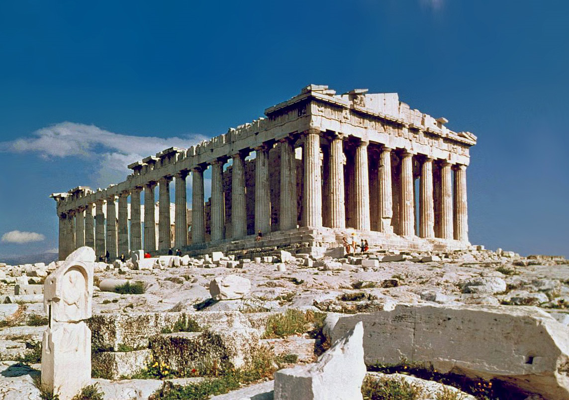 Parthenon, Athens Greece. Photo taken in 1978.